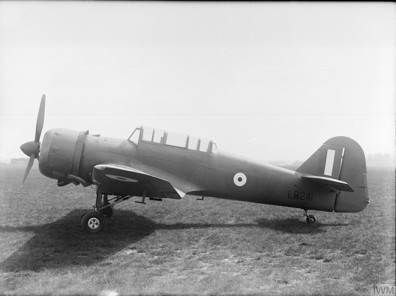 The Miles Martinet Mark I prototype (RAF serial LR241), at Reading, Berkshire (UK), after assembly at Miles Aircraft Ltd. It made its first flight on 24 April 1942. This aircraft later served at the Royal Aircraft Establishment at Farnborough, Hampshire, and with No. 2 Air Gunners School at Dalcross, Inverness.